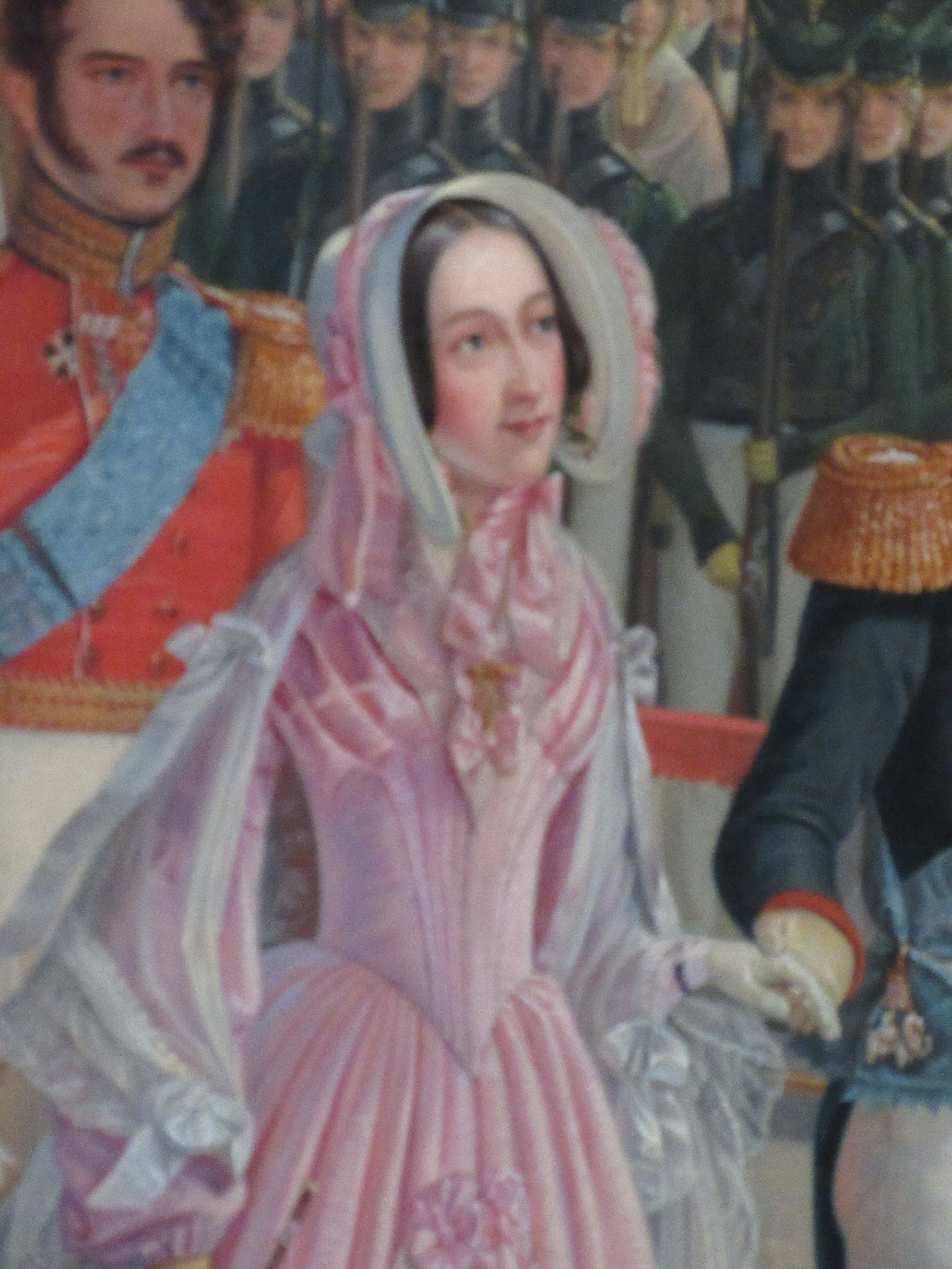 Detail from the painting "Frederik VIIs Bryllupsindtog" painted by Carl Balsgaard depicting the bride of the day Caroline Mariane of Mecklenburg. The wedding took place in Copenhagen, Denmark in 1841.